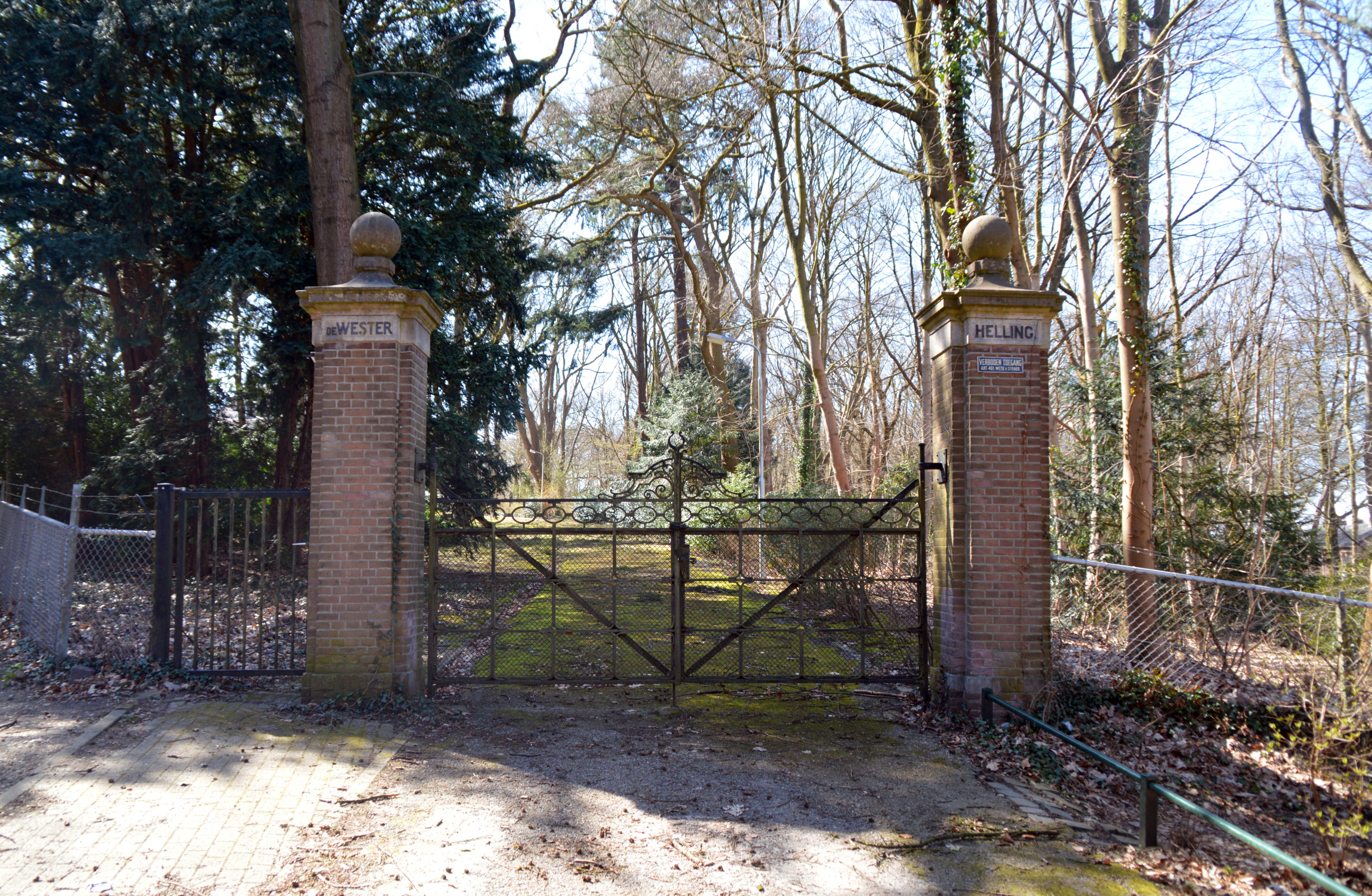 Villa De Westerhelling Nijmegen Kwakkenberg Oscar Leeuw 1912 Art Nouveau Eclecticism Fencing with pillars